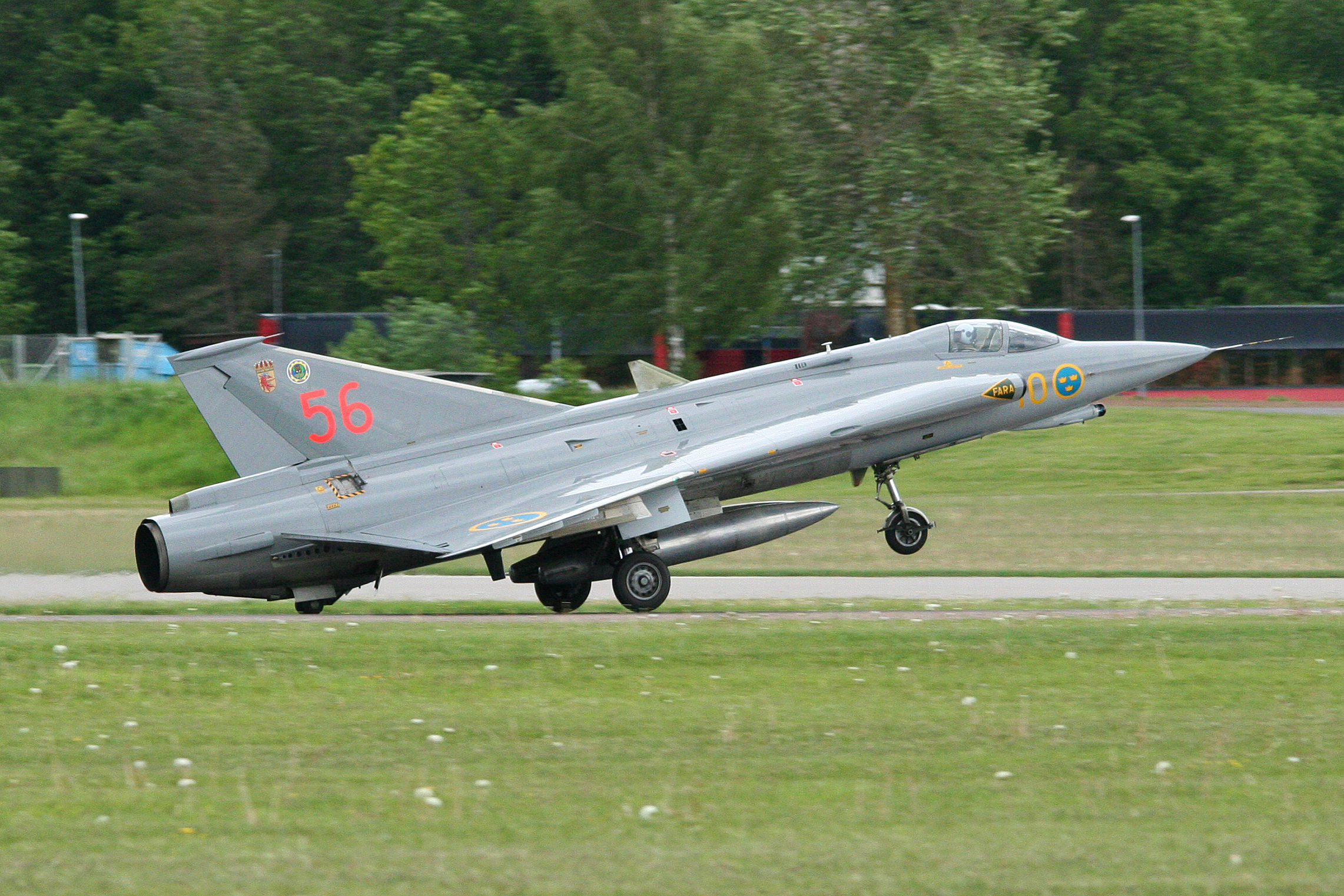 Is that a perfect '3-pointer'?Operated by the Swedish AF Heritage Flight. msn 35-556. 2012 Malmen Airshow, Sweden. 03-06-2012